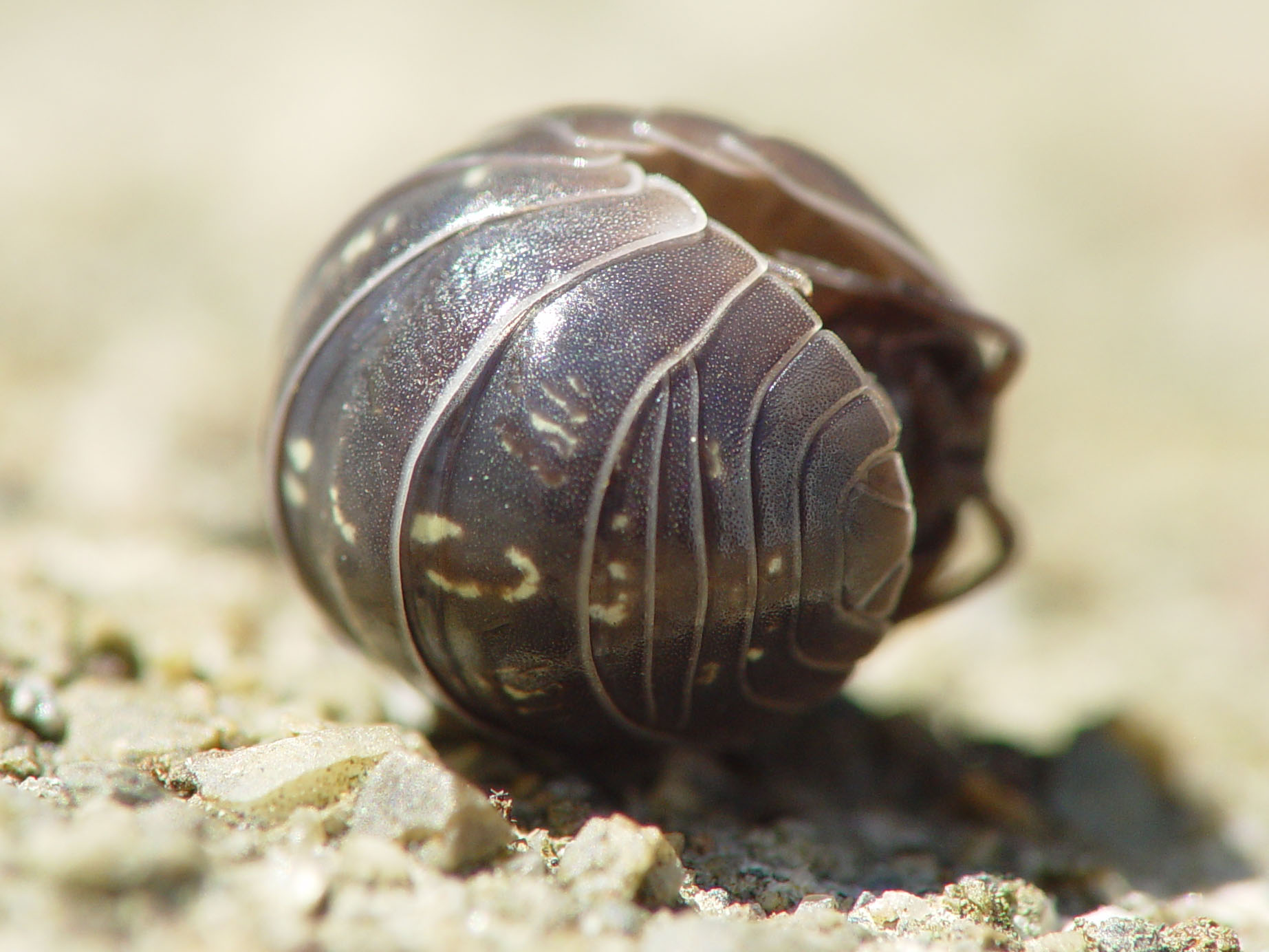 Description Armadillidium vulgare, (Phylum: Arthropoda, Class: Malacostraca, Family: Armadillidiidae). Date May 6, 2006 Location San Francisco, California Photographer Franco Folini